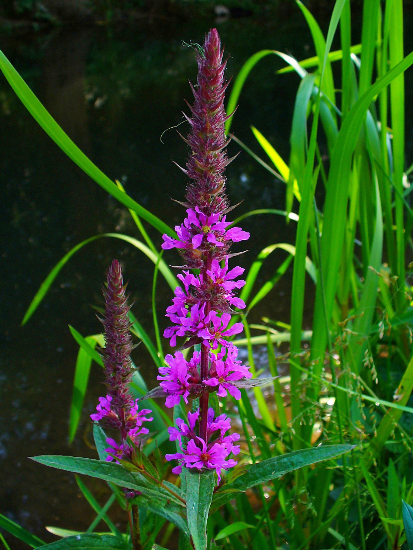 Lythrum salicaria, Lyhraceae, Purple Loosestrife, inflorescence. The plant is used in homeopathy as remedy: Lythrum salicaria (Lythr-s.)